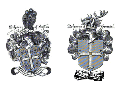 Coat of Arms of my Molyneux Family